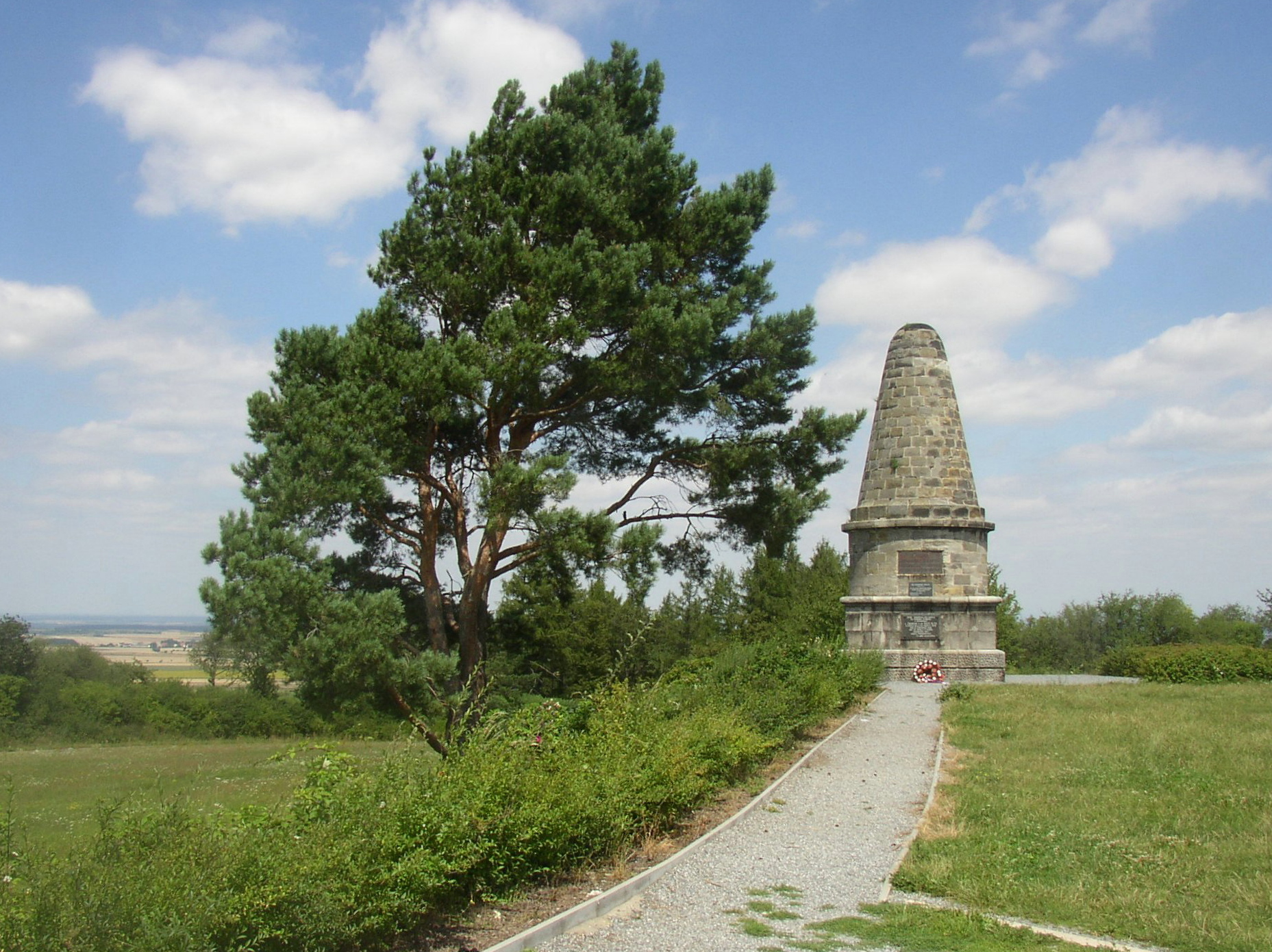 Battle of Lipany memorial in Lipany near Český Brod.